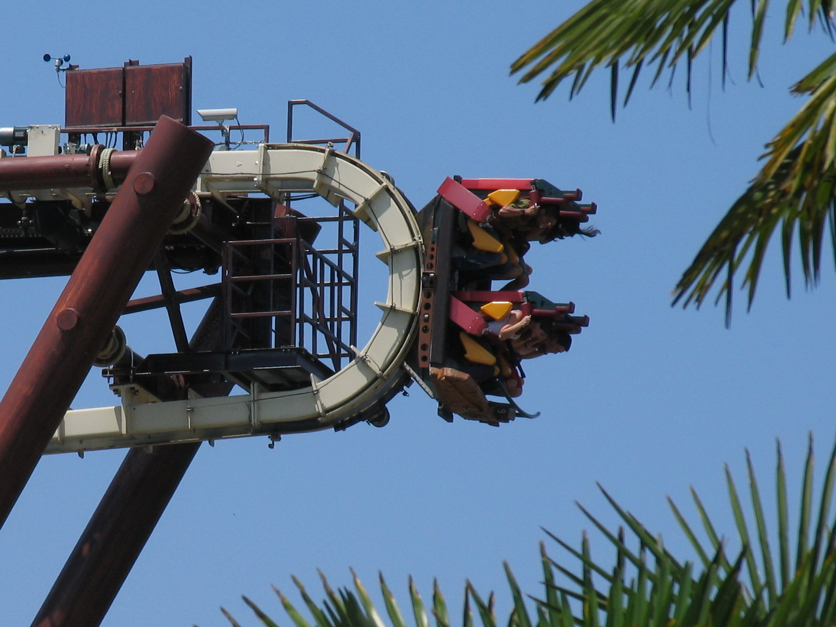 Roller coaster Sequoia Adventure at Gardaland, Italy